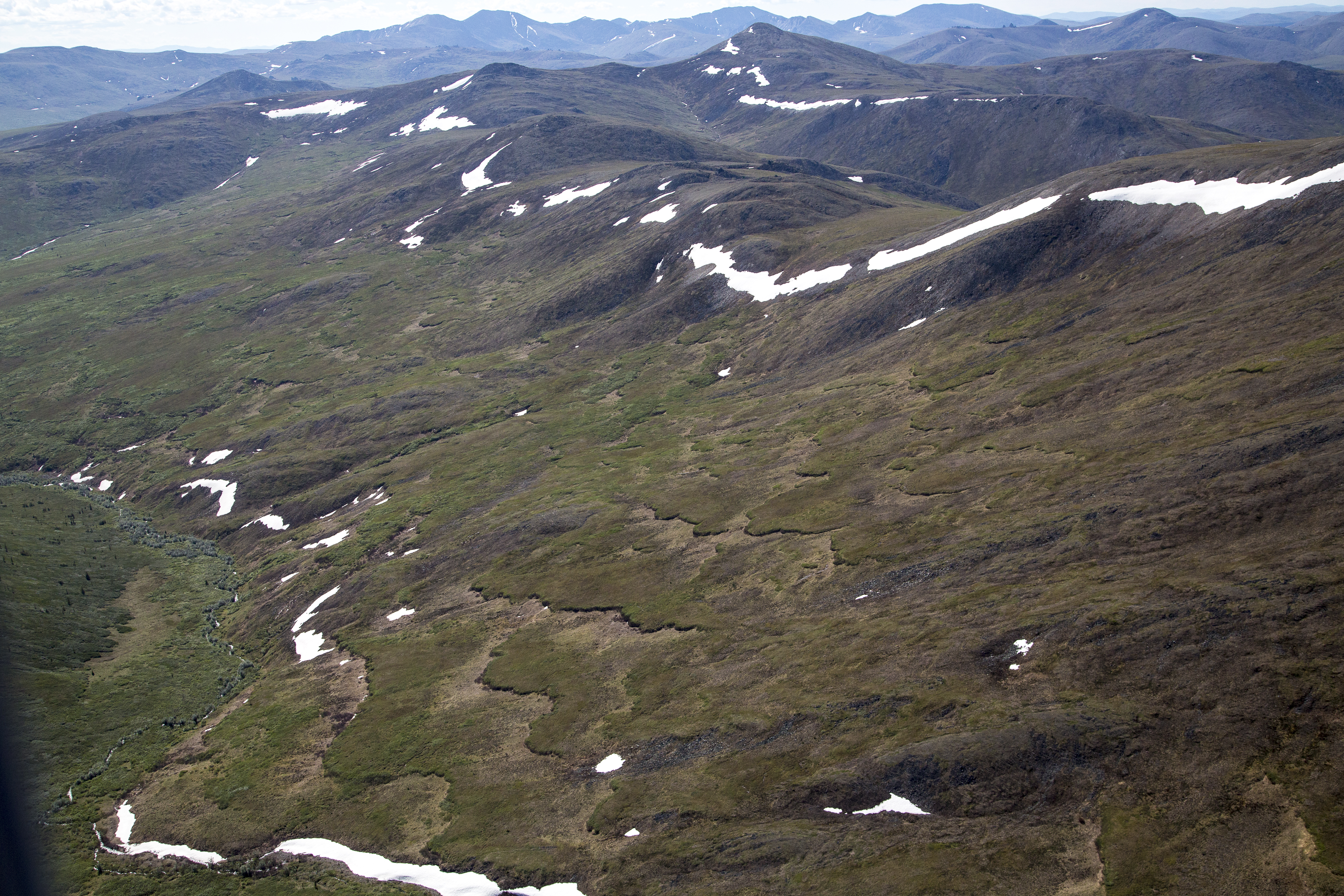 The White Mountains....Remarkably Remote, Surprisingly Close! Located just an hour's drive from Fairbanks, Alaska, the one-million-acre White Mountains National Recreation Area offers stunning scenery, peaceful solitude, and outstanding opportunities for year-round recreation. Summer visitors to the White Mountains pan for gold, fish, hike and camp under Alaska's 'midnight sun.' The Nome Creek Road provides access to two campgrounds, trails, a gold-panning area and a departure point for float trips on Beaver Creek National Wild River. In winter, visitors travel by ski, snowshoe, dog team and snowmobile to enjoy the 12 public-use cabins and 250 miles of groomed trails that make the White Mountains one of Interior Alaska's premier winter destinations." Learn more about White Mountains National Recreation Area: Photo by Bob Wick, BLM